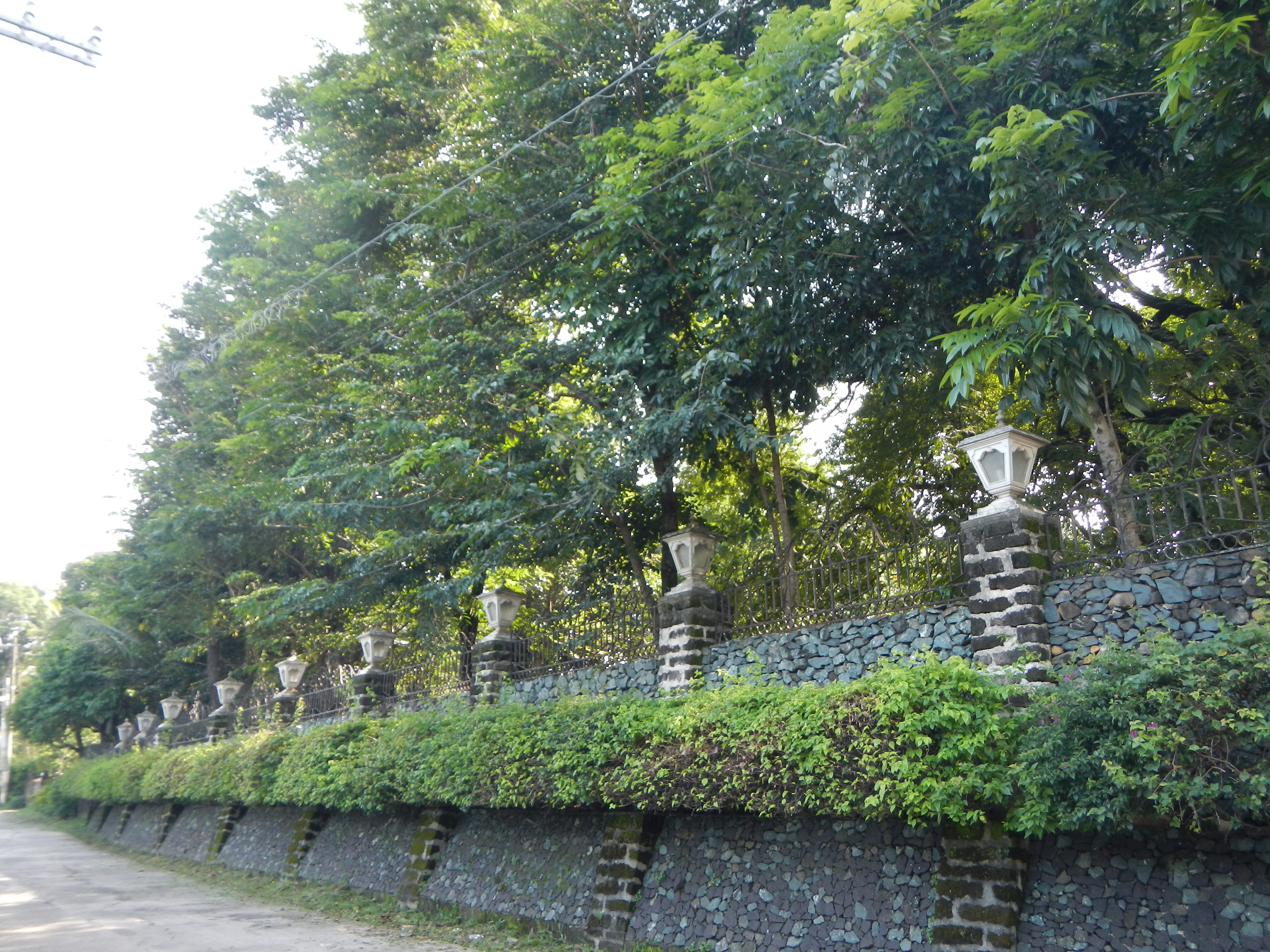 Cesar Montano[1] and wife Sunshine Cruz' [2] haven (2.5-hectare parcel of land in Pandi, Bulacan, they acquired 8 years ago).[3] Pandi, Bulacan[4][5]